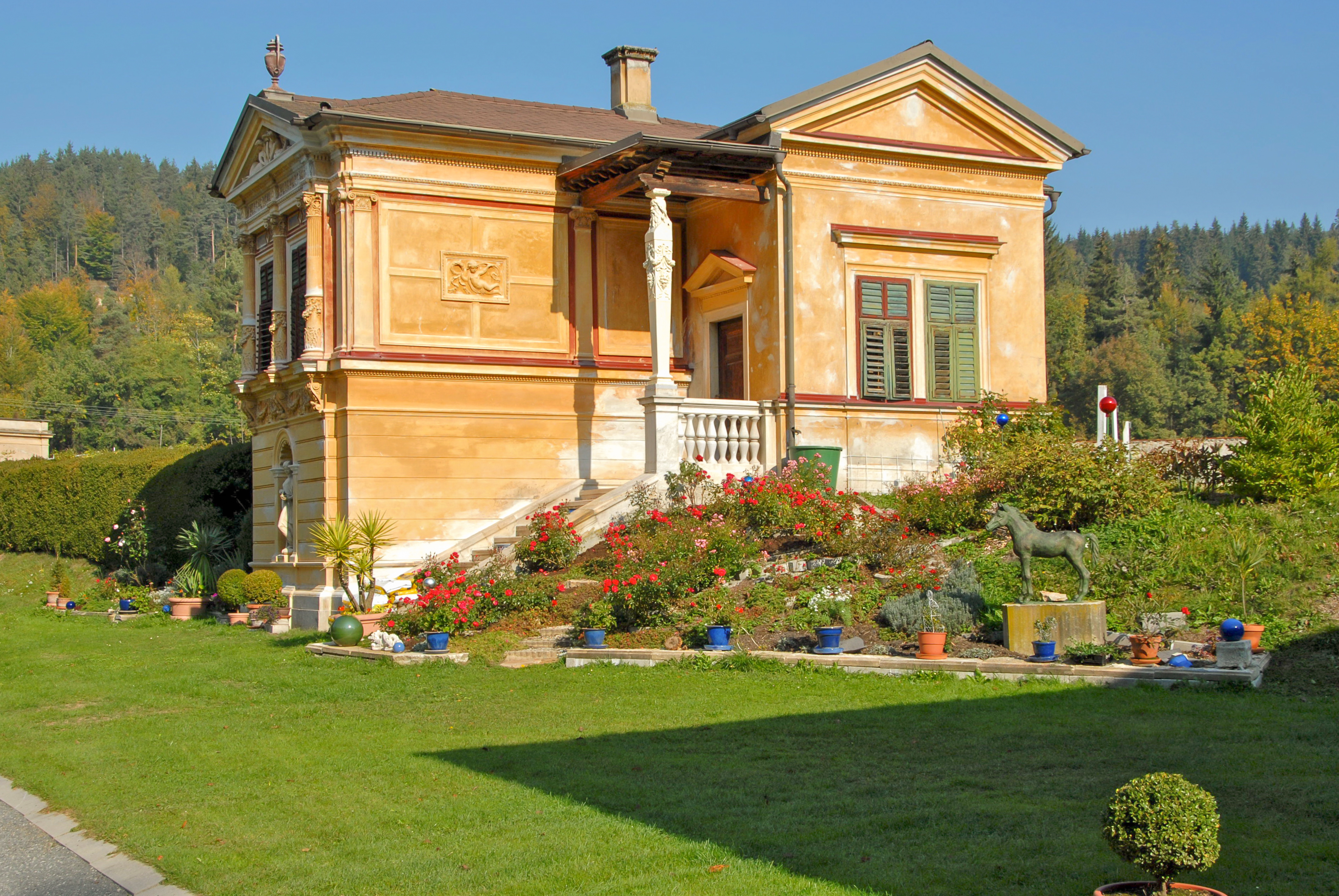 Bathhouse close to the castle at Rottenstein #9, municipality Sankt Georgen am Längsee, district Sankt Veit on the Glan, Carinthia, Austria, EU